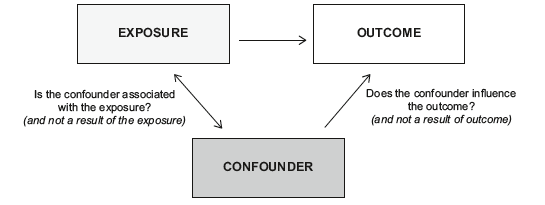 Diagram of the relationship of a confounder to both exposure and outcome